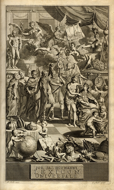 A page from Lexicon Universale